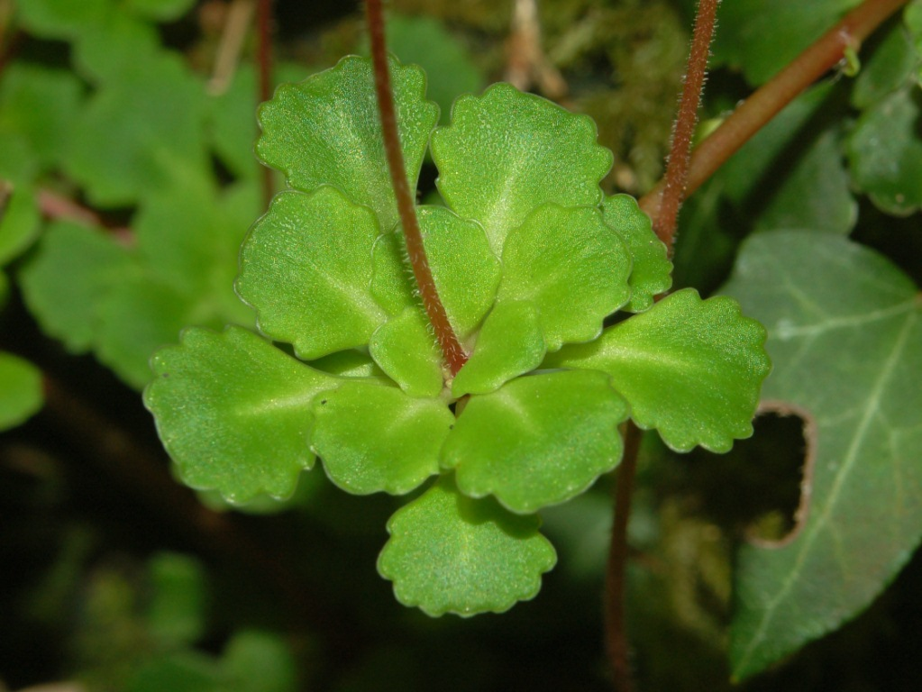 Saxifraga cuneifolia - Gattorna, Genova, Italy